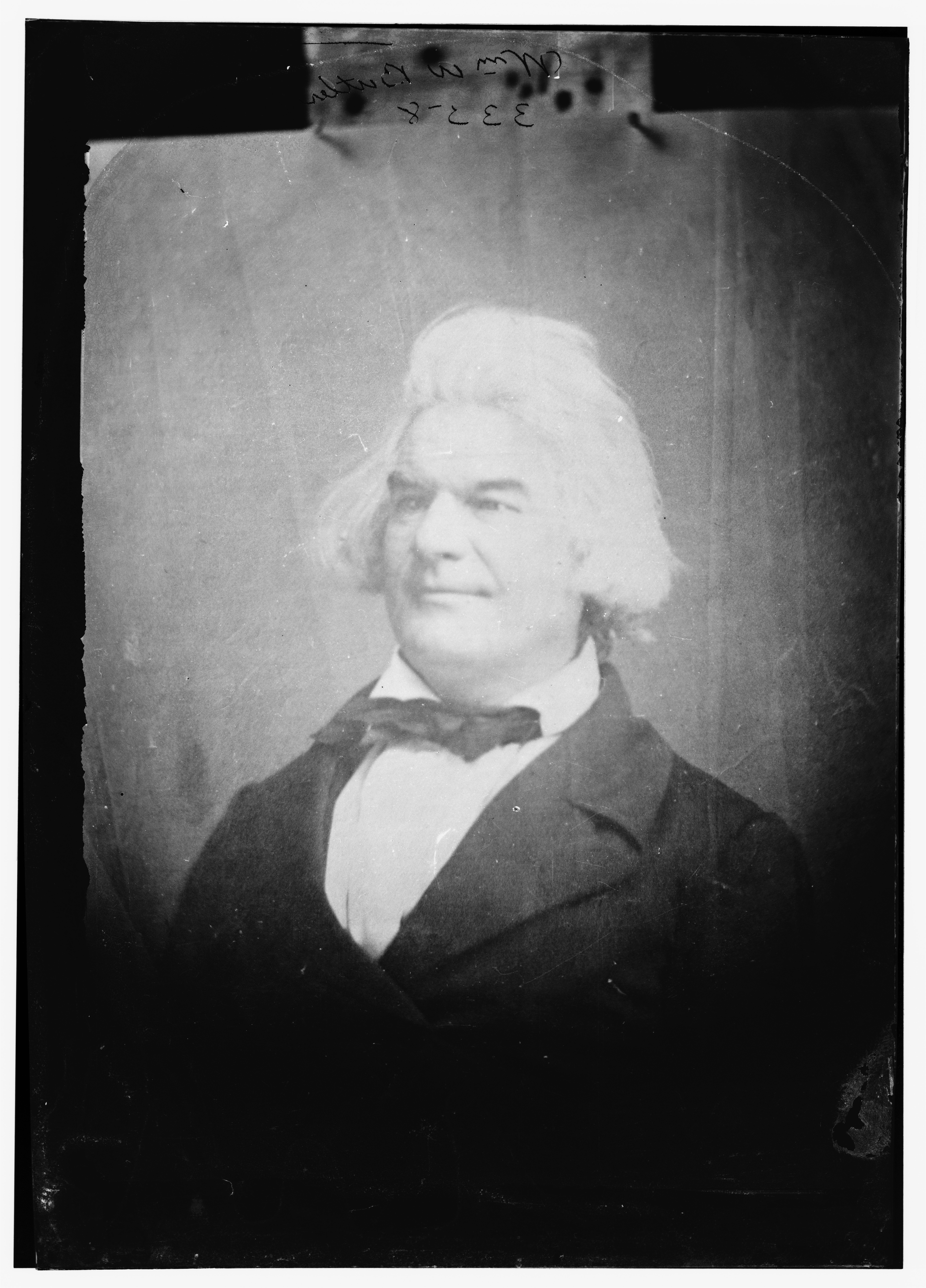 PD-LOC